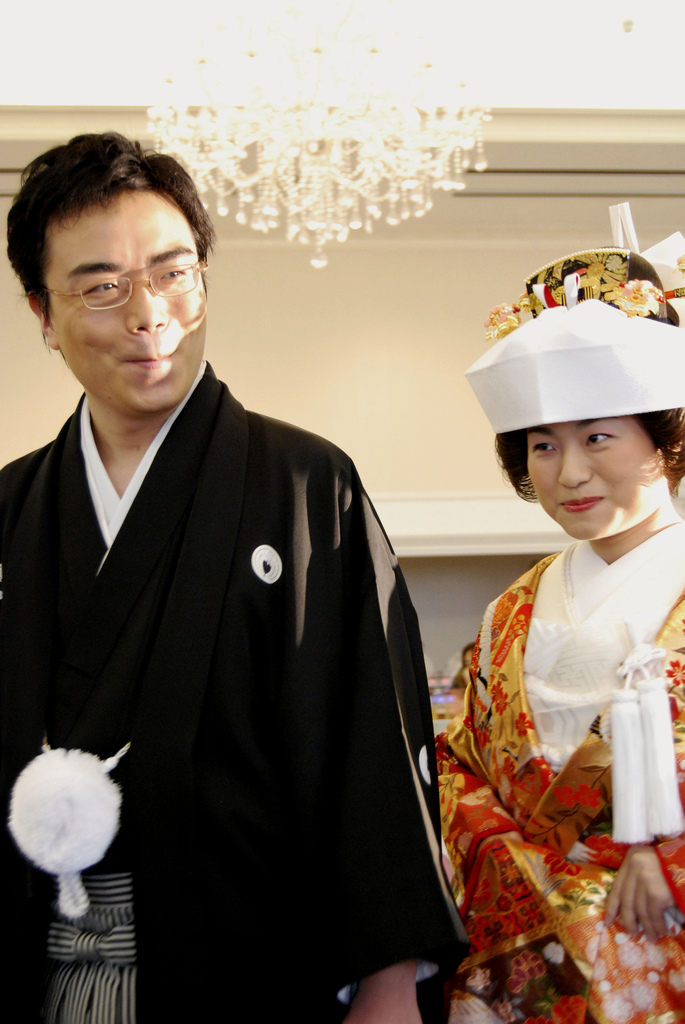 Wedding couple of Japan, dressed in traditional Kimonos.